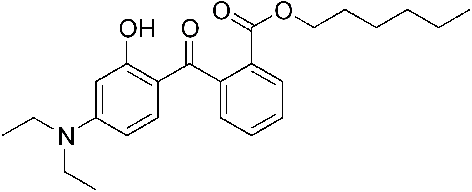 chemical structure of diethylamino hydroxybenzoyl hexyl benzoate (uvinul A plus)